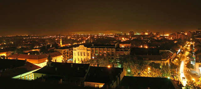 Image of the City at night. The photo is subject to international laws of copyright of the City of Pančevo. It should be published with a link to the Official Website of the City. In principle, violations of the rights (reputation damage, defamation) are legally punishable. All rights reserved by the administration of the City of Pančevo. The date of Upload is not the date on which the photo was taken.